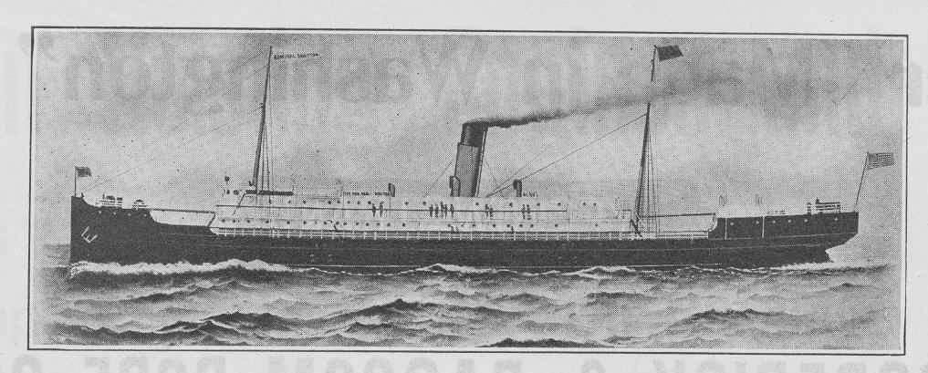 Alaska Pacific Steamship Company, Puget Sound San Francisco Route : $15.00 First Class, $10.00 Second Class Subject: Steamboats, Ocean liners Tag: Vessels